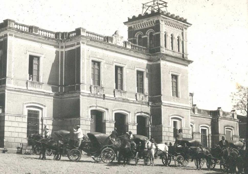 Tucumán train station built by Córdoba Central Railway. It was later took over by Belgrano Railway after nationalisation.